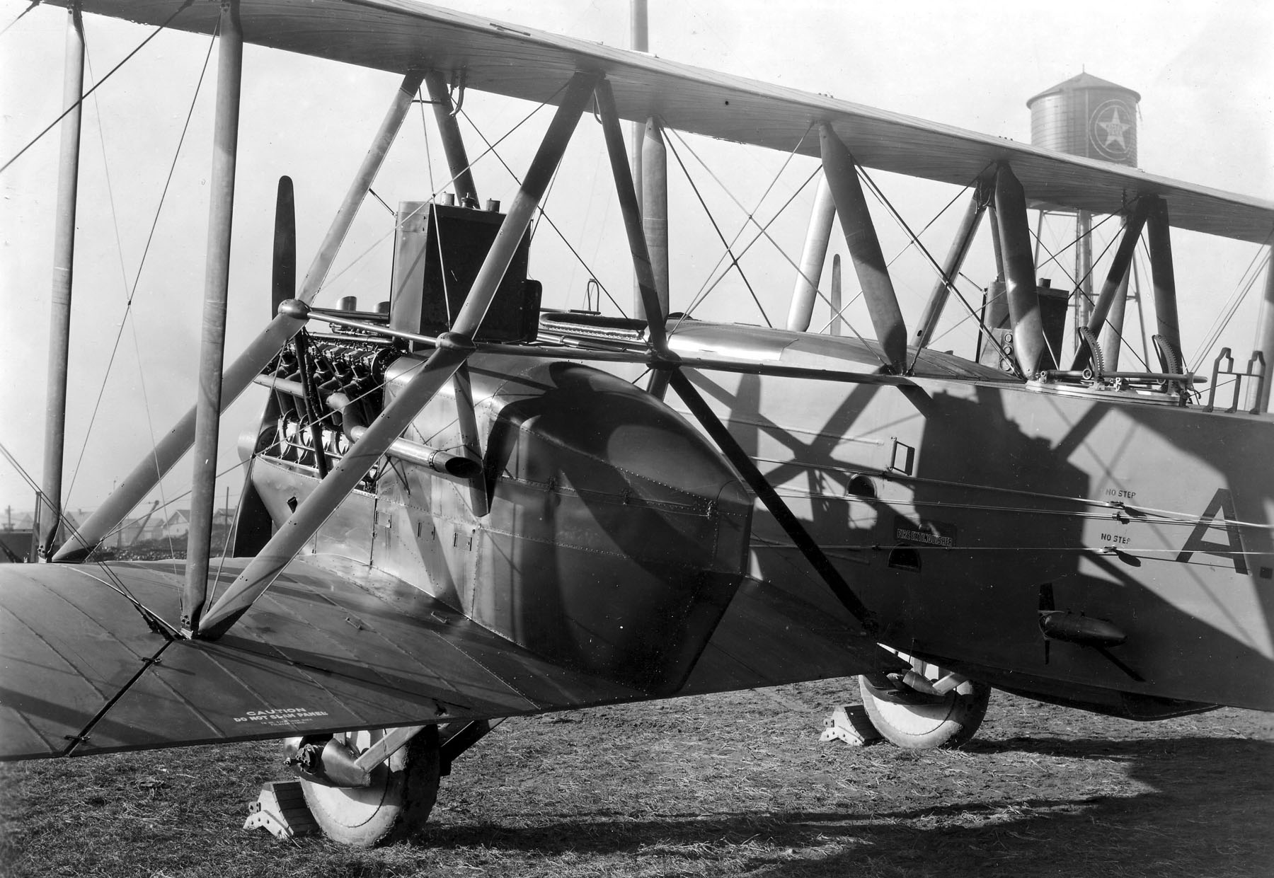 Martin MB-2 (NBS-1) three-quarter aft view, closeup of front half.